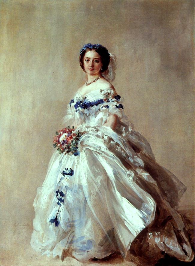 Victoria, Princess Royal (later German Empress)